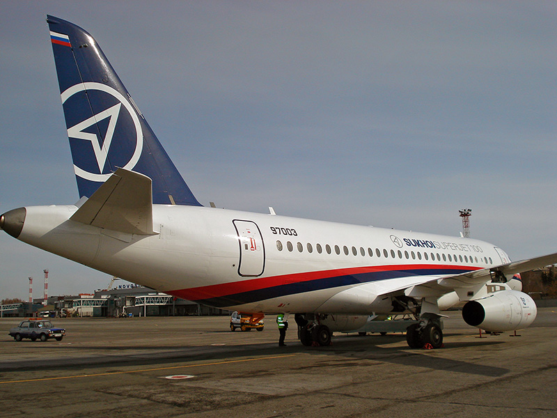 Sukhoi SuperJet 100